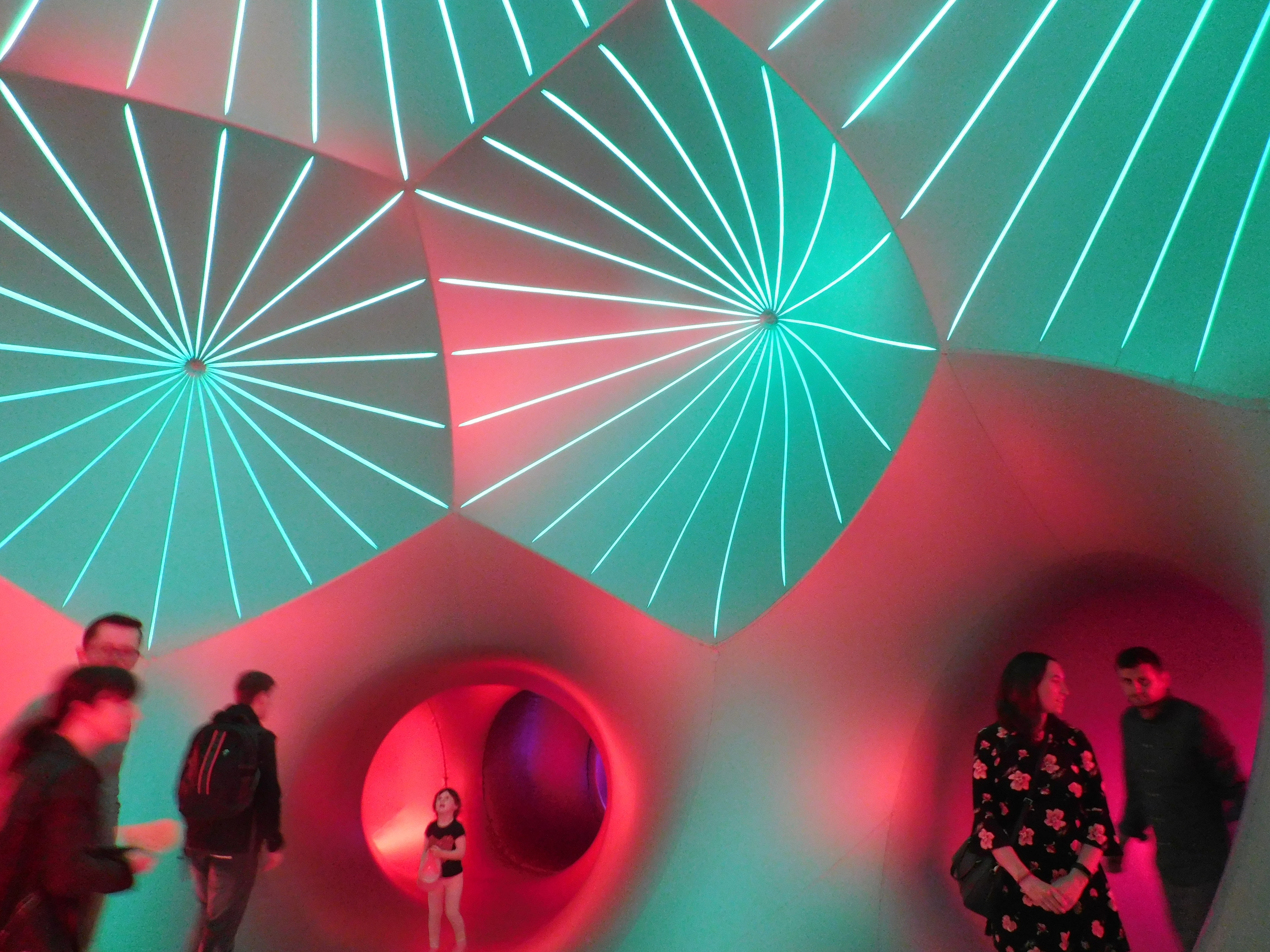 People walk around inside an inflated sculpture 'Miracoco Luminarium'